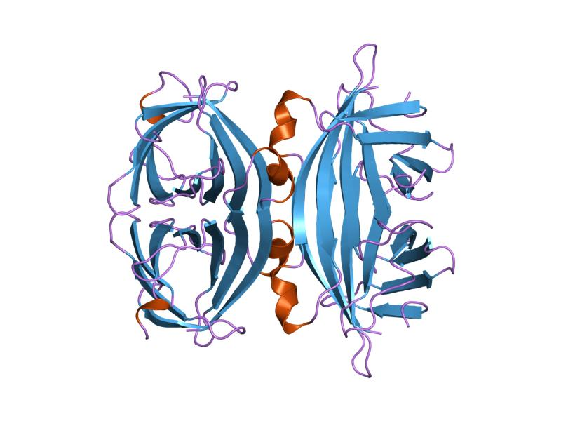 Cartoon representation of the molecular structure of protein registered with 1sws code.